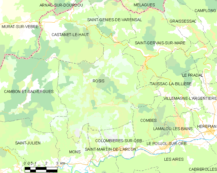 Map commune FR insee code 34235.png - Rosis